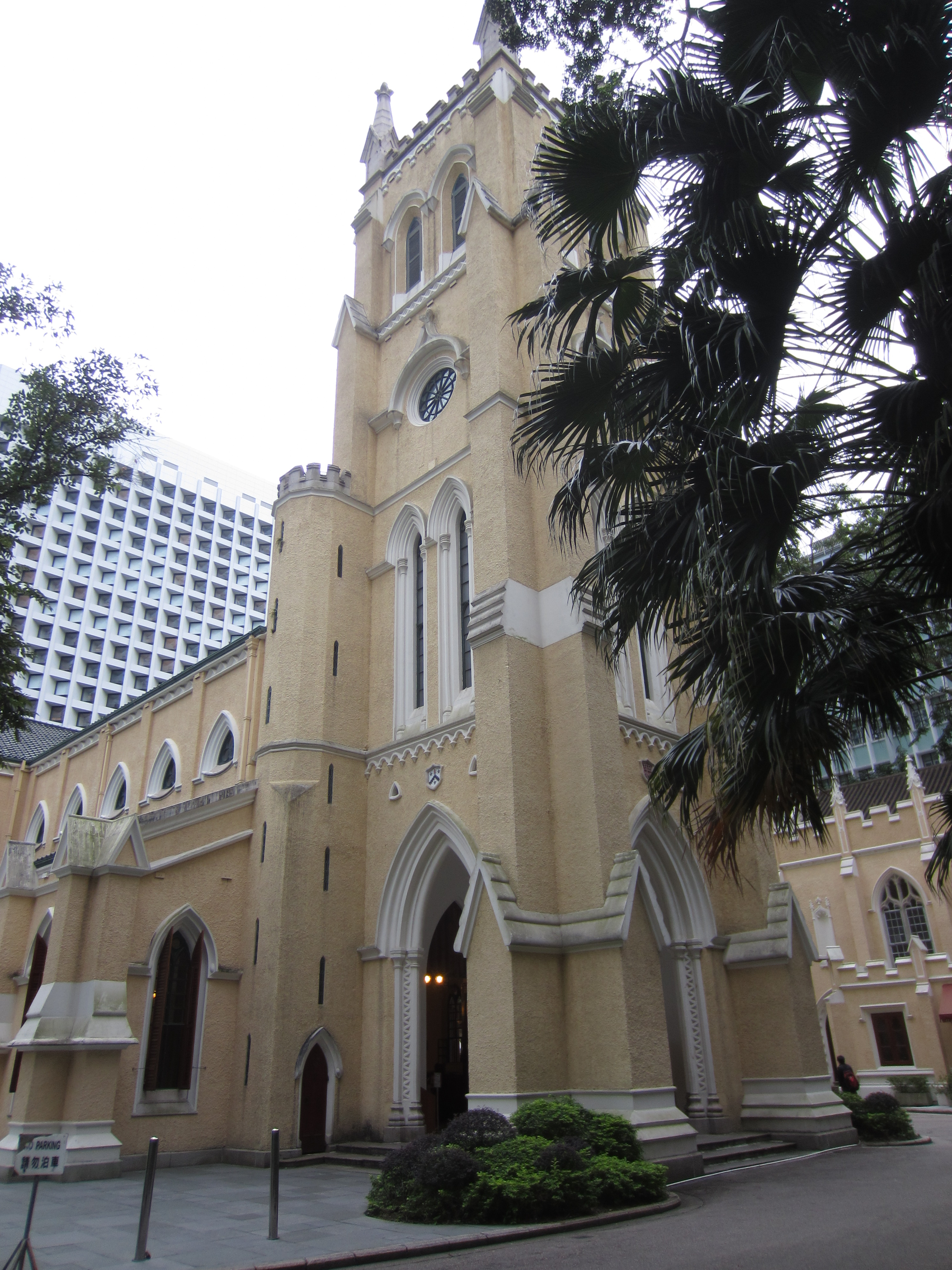 Hong Kong, November 2017